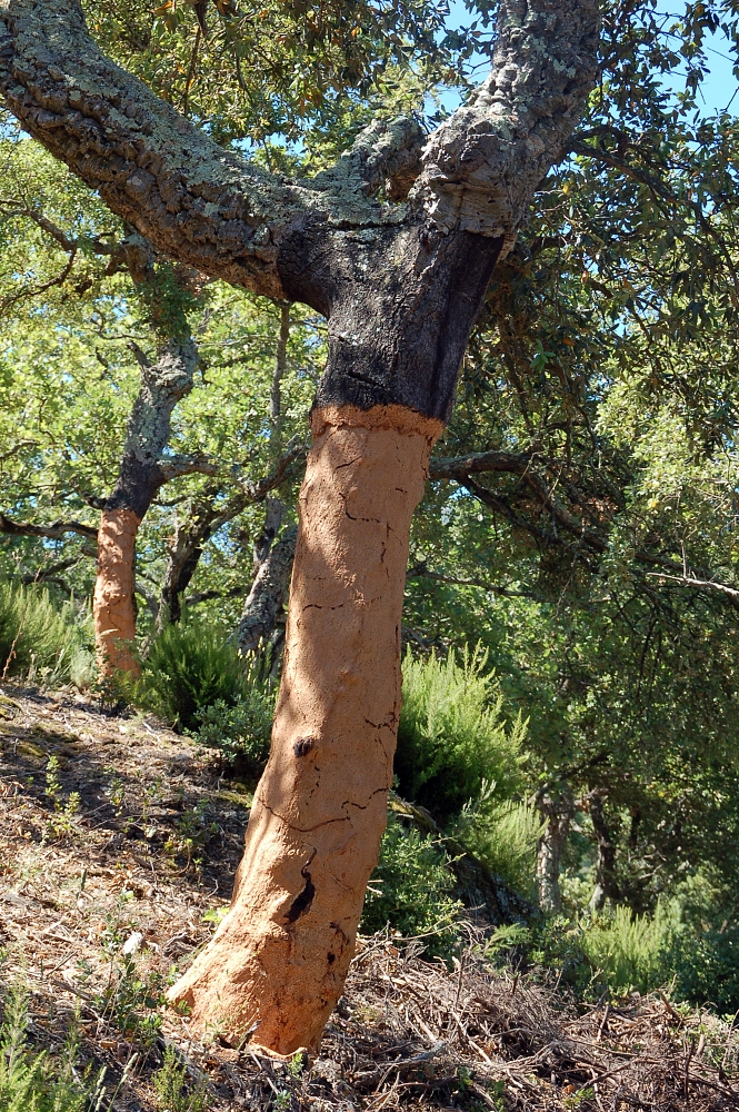 Cork Oak (Quercus suber), Villelongue dels Monts, Languedoc-Roussillon, France